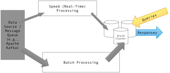 Diagram showing the flow of data through the processing and serving layers of lambda architecture. Example named components are shown.